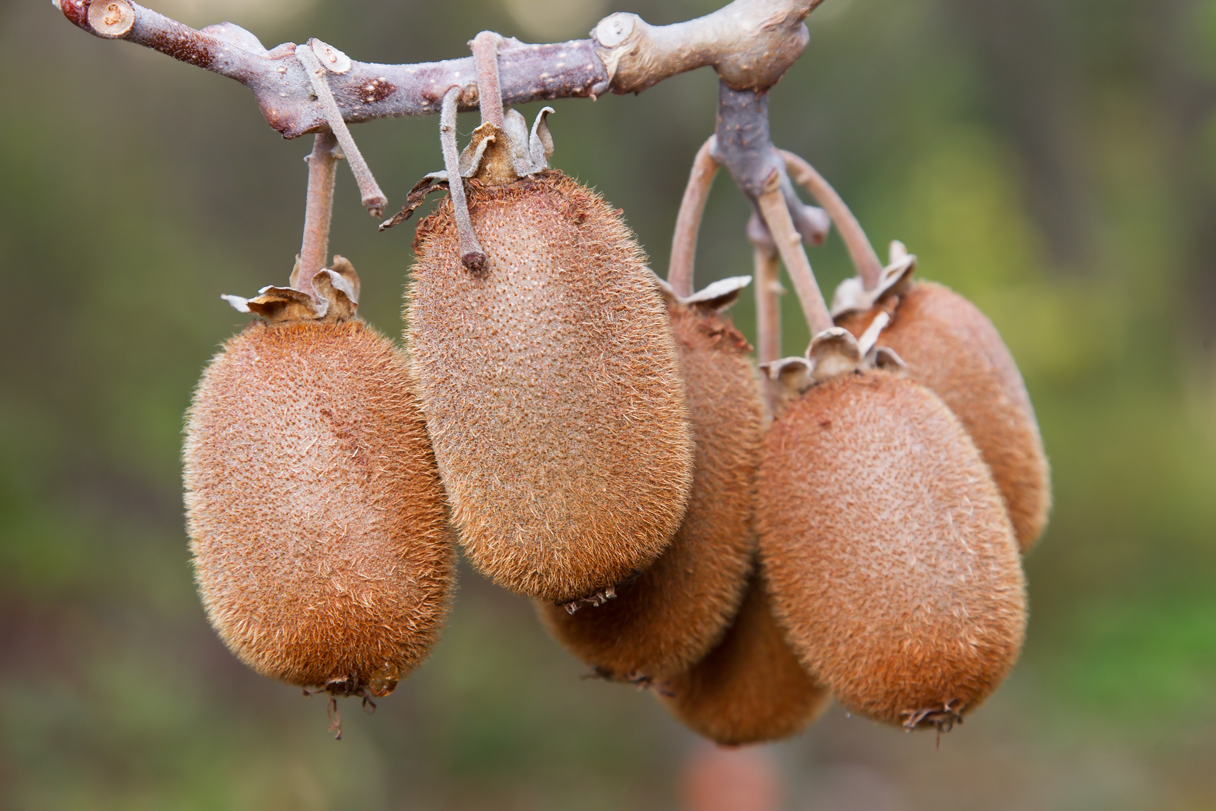 Kiwifruit (Actinidia chinensis) on a branch, Austin's Ferry, Tasmania, Australia